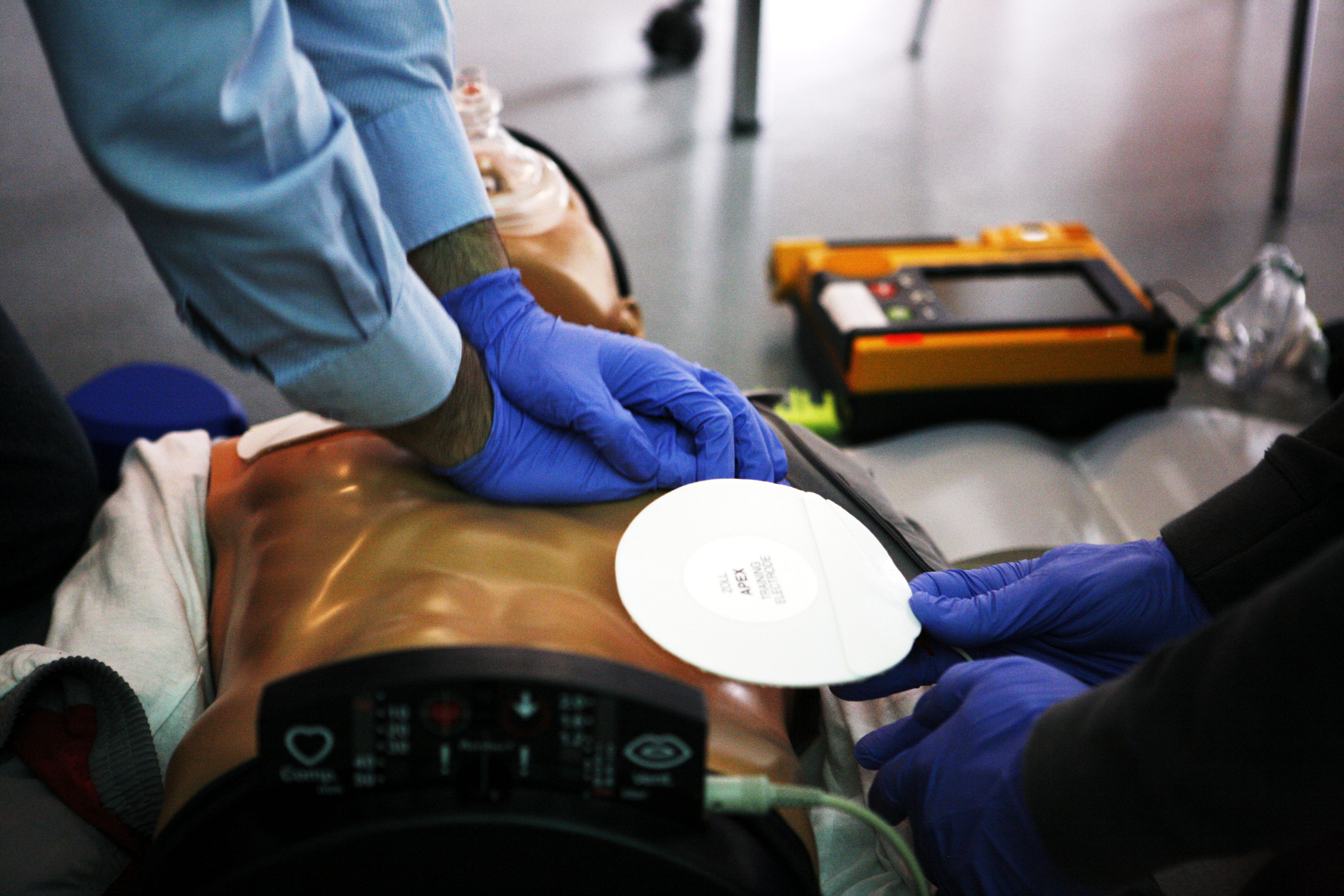 CPR training